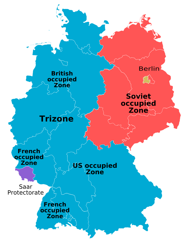 This map shows the border of military occupied Germany around the year 1948.